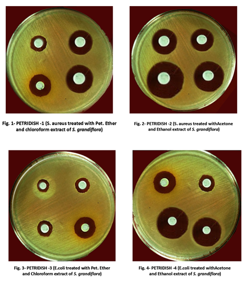 Petridishes showing Zone of inhibition by various extracts like Pet. ether, Chloroform, Ethanol and acetone.